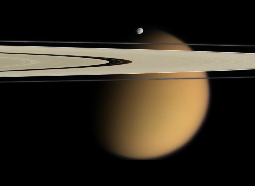 Cassini delivers this stunning vista showing small, battered Epimetheus and smog-enshrouded Titan, with Saturn's A and F rings stretching across the scene. The color information in the colorized view is completely artificial: it is derived from red, green and blue images taken at nearly the same time and phase angle as the clear filter image. This color information was overlaid onto the previously released clear filter view (see PIA07786) in order to approximate the scene as it might appear to human eyes. The prominent dark region visible in the A ring is the Encke gap (325 kilometers, or 200 miles wide), in which the moon Pan (26 kilometers, or 16 miles across) and several narrow ringlets reside. Moon-driven features which score the A ring can easily be seen to the left and right of the Encke gap. A couple of bright clumps can be seen in the F ring. Epimetheus is 116 kilometers (72 miles) across and giant Titan is 5,150 kilometers (3,200 miles) across. The view was acquired with the Cassini spacecraft narrow-angle camera on April 28, 2006, at a distance of approximately 667,000 kilometers (415,000 miles) from Epimetheus and 1.8 million kilometers (1.1 million miles) from Titan. The image captures the illuminated side of the rings. The image scale is 4 kilometers (2 miles) per pixel on Epimetheus and 11 kilometers (7 miles) per pixel on Titan. The Cassini-Huygens mission is a cooperative project of NASA, the European Space Agency and the Italian Space Agency. The Jet Propulsion Laboratory, a division of the California Institute of Technology in Pasadena, manages the mission for NASA's Science Mission Directorate, Washington, D.C. The Cassini orbiter and its two onboard cameras were designed, developed and assembled at JPL. The imaging operations center is based at the Space Science Institute in Boulder, Colo. For more information about the Cassini-Huygens mission visit The Cassini imaging team homepage is at